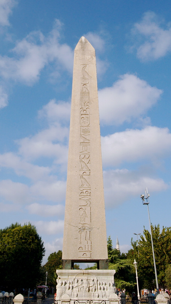 Obelisk of Theodosius